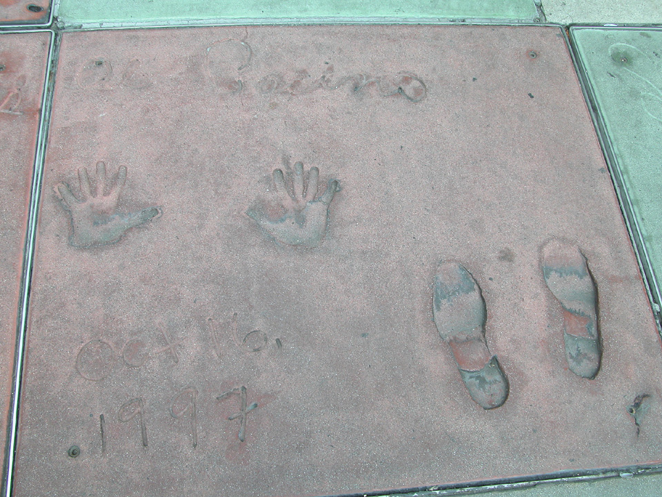 Al Pacino's footprints at the Grauman's Chinese Theatre, Los Angeles (California)